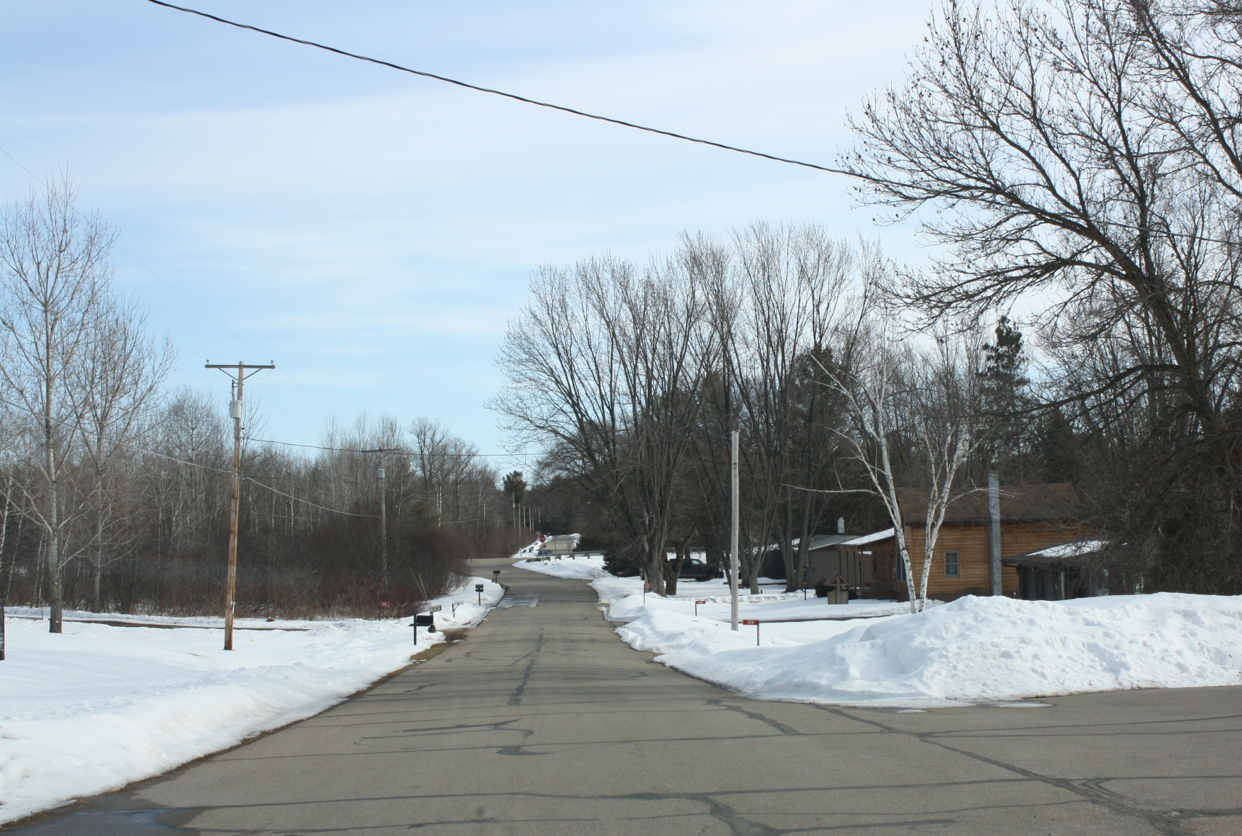 Looking south in Underhill, Wisconsin.